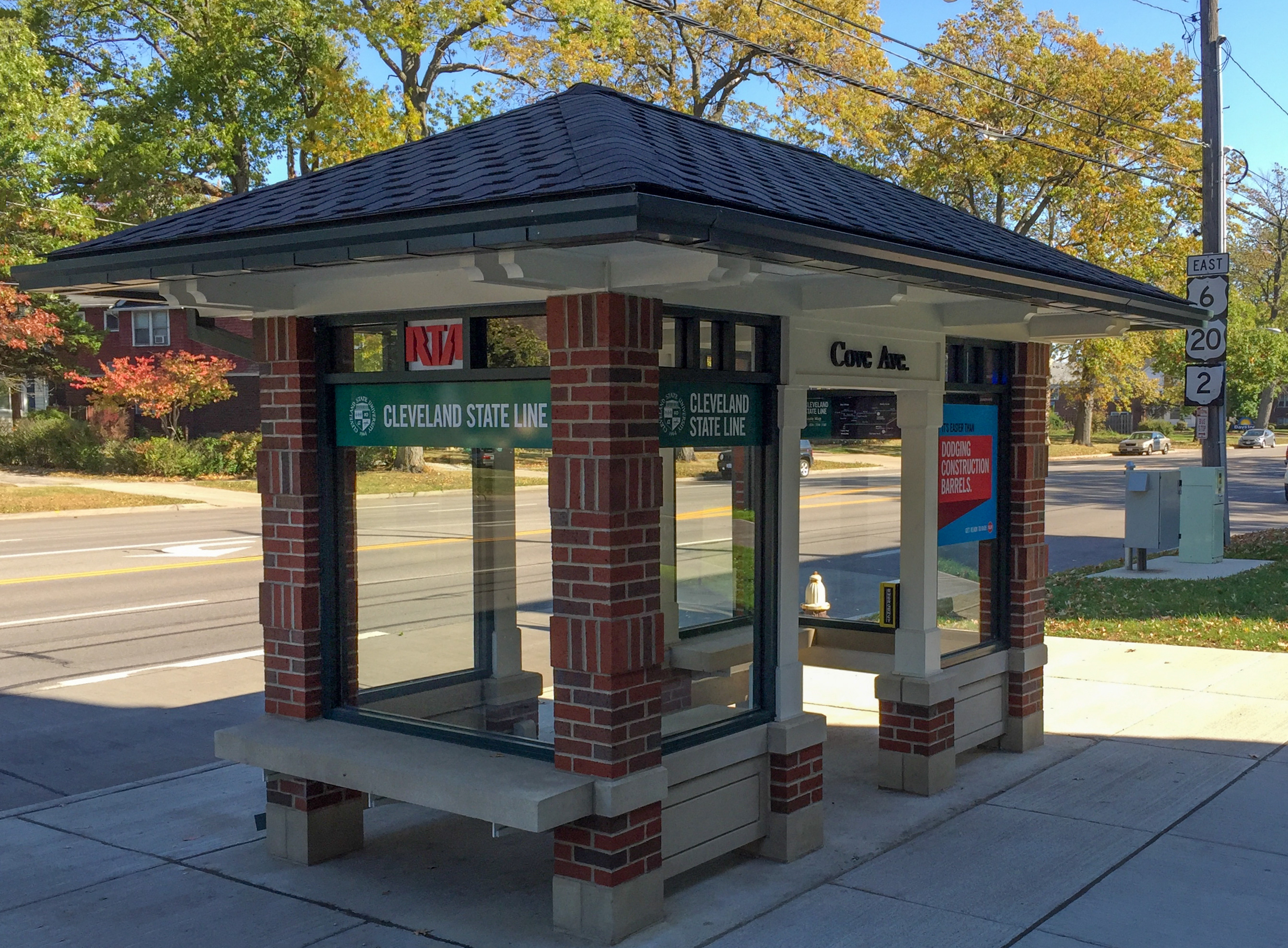 RTA Cleveland State Line BRT Station at Clifton Blvd. and Cove Ave. in October 2015